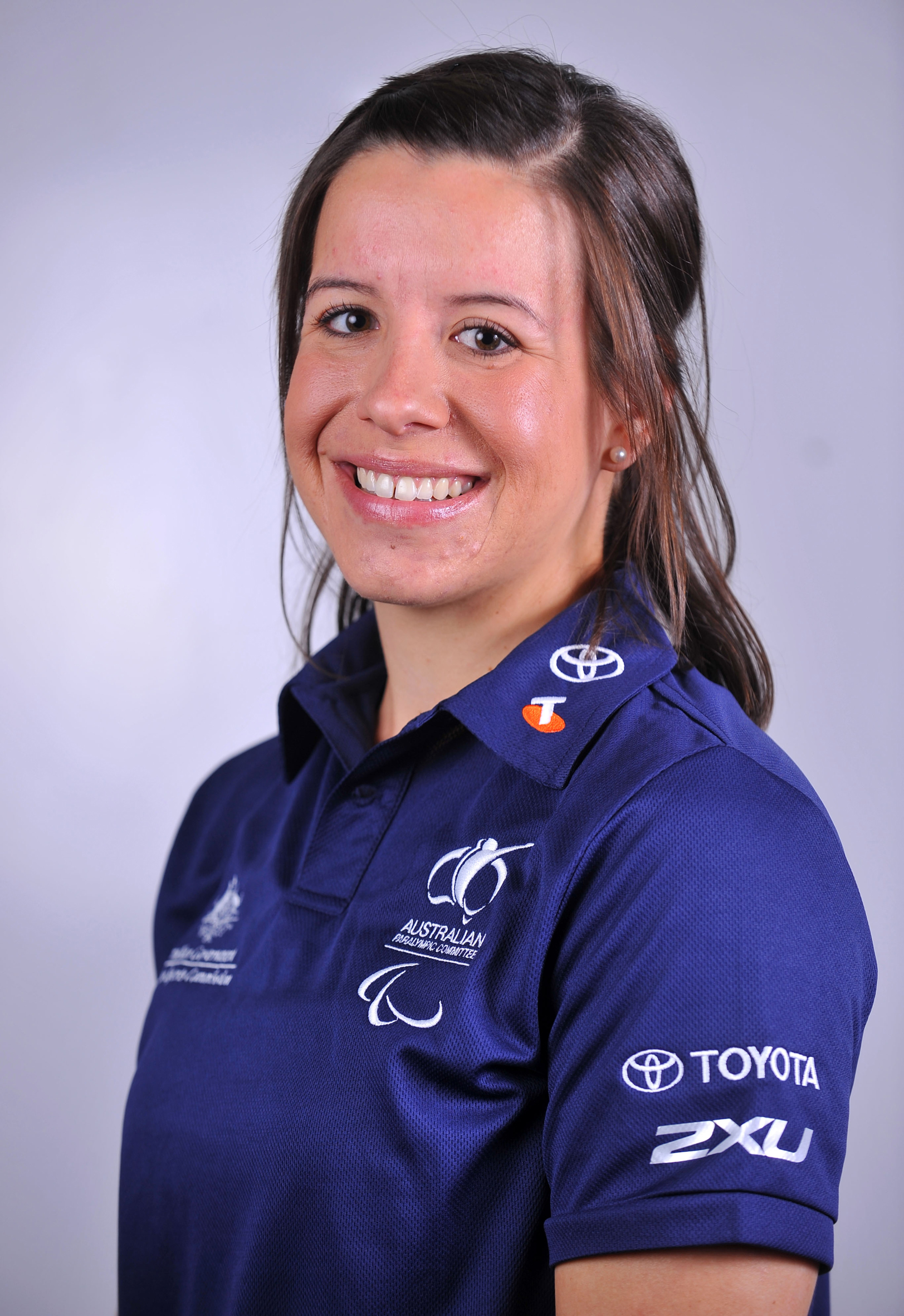 Portrait of Australian athlete Michelle Errichiello, 2012 Australian Paralympic (shadow) Team athlete